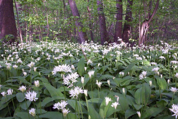 Allium ursinum, over Pisia river, in forest near Radziejowice (Poland, Masovia).